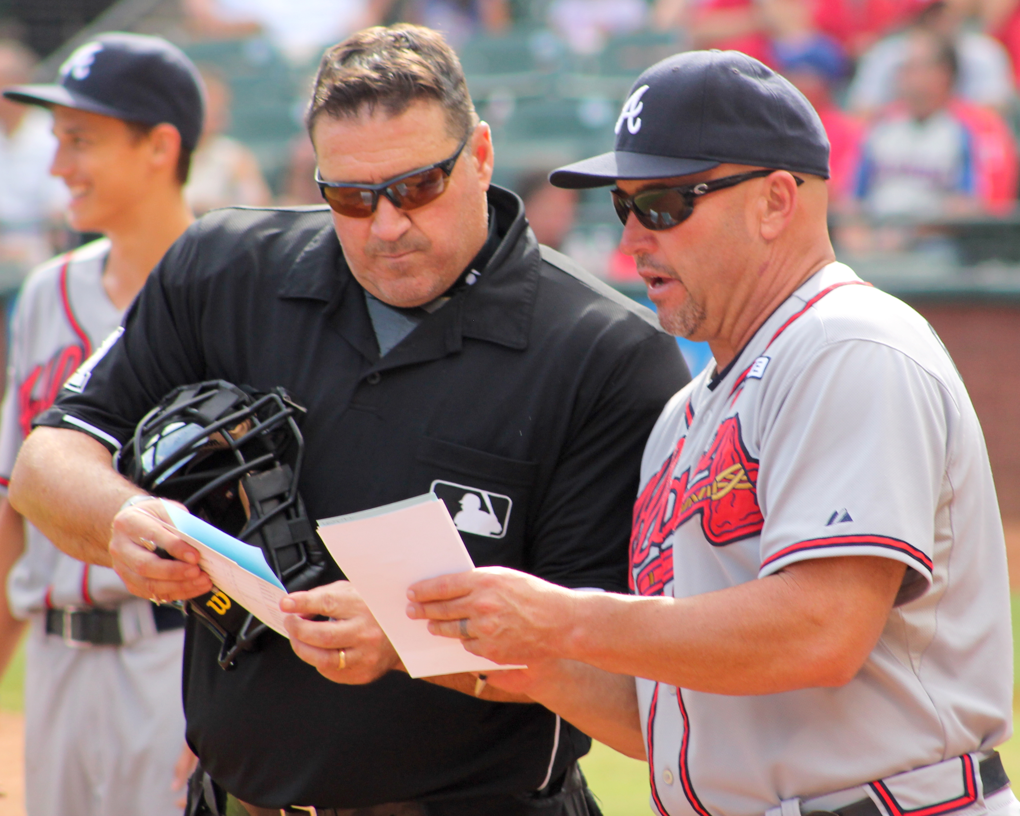 Baseball umpire Tony Randazzo (left) confers with Atlanta Braves manager Fredi González.